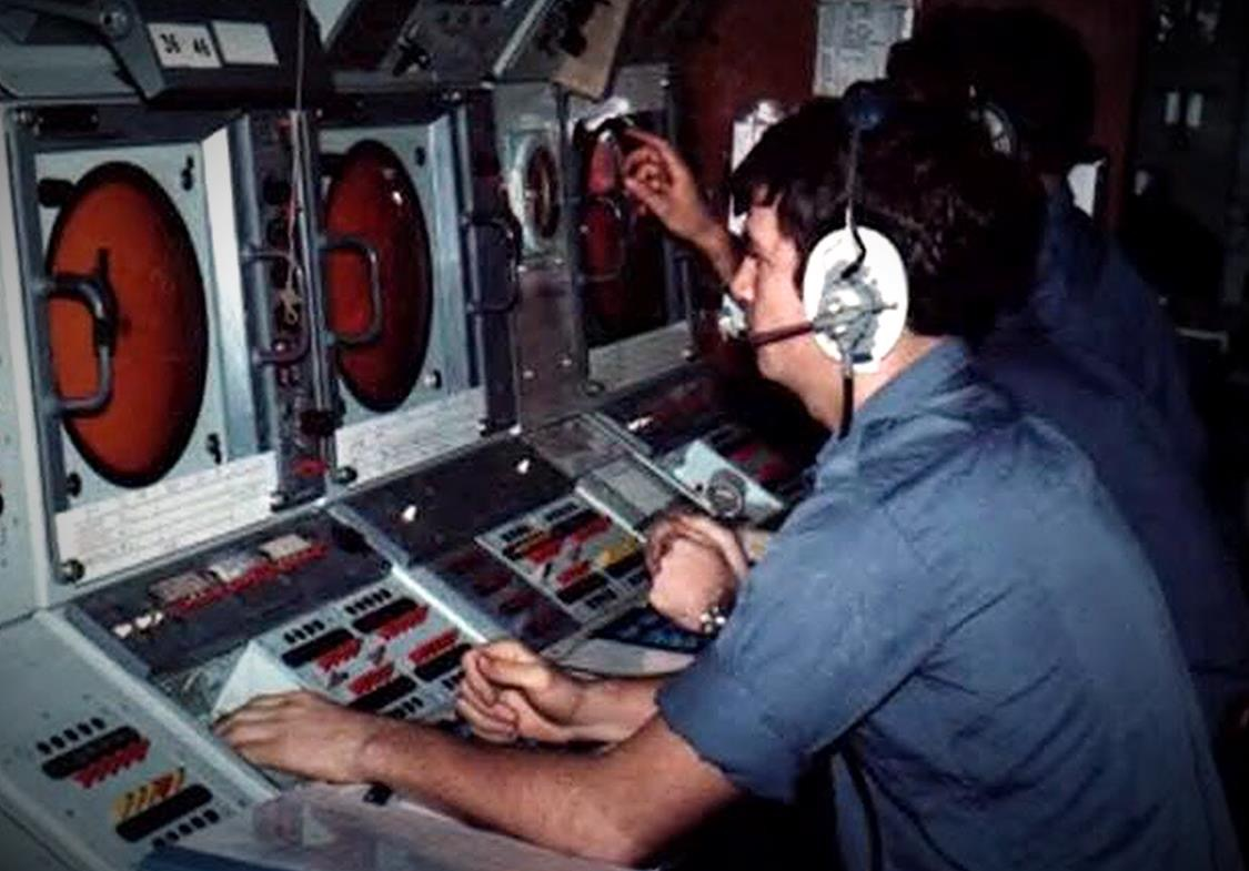 Operations room on the British destroyer, HMS Cardiff. Closest radar operator is Able Seaman Kenneth Ian Griffiths who is sitting at the surface plot console. It is 04:00 hrs and they're providing the "Officer Of the Watch" with "collision avoidance information".